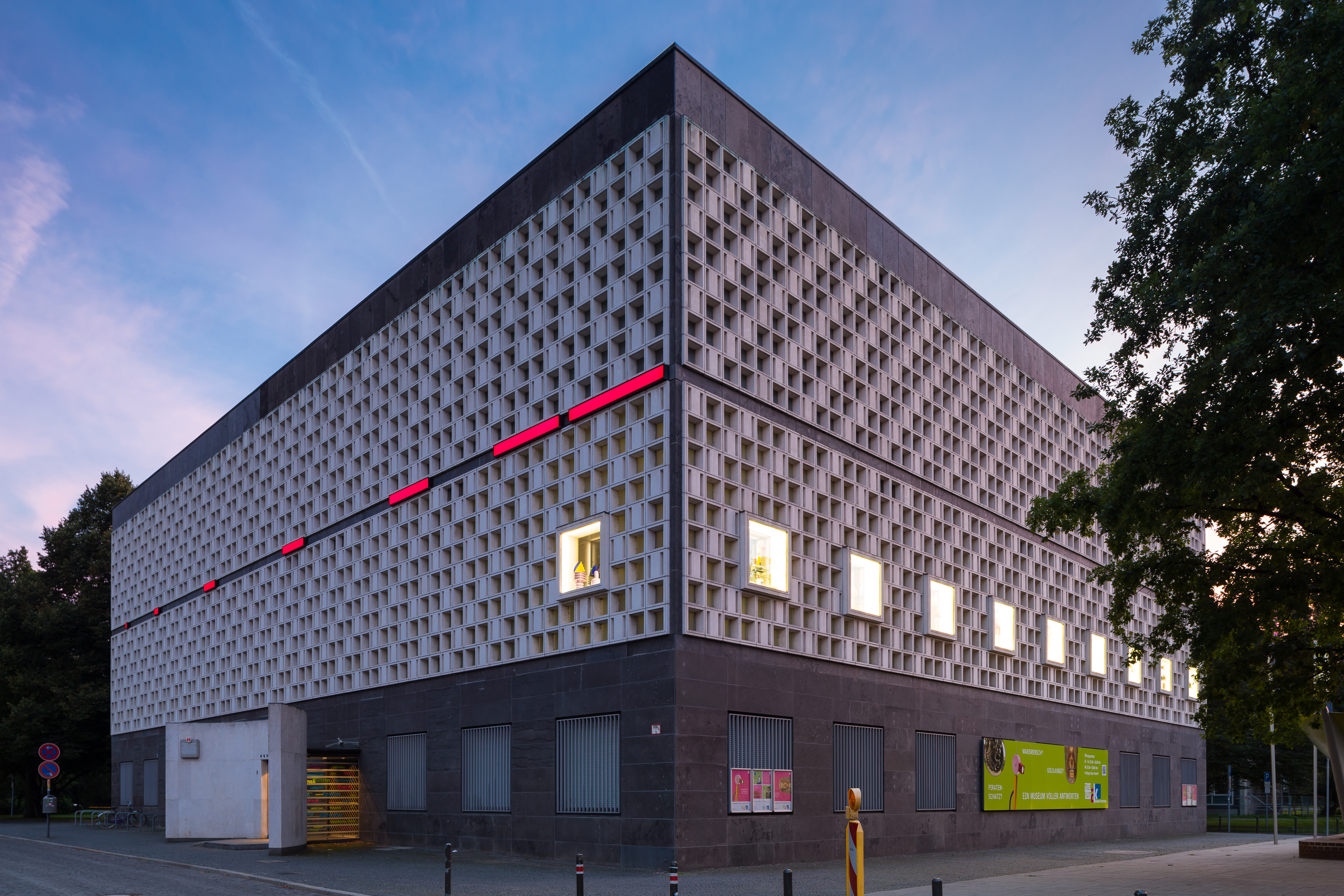 Museum August Kestner located at Trammplatz square in Hanover, Germany.